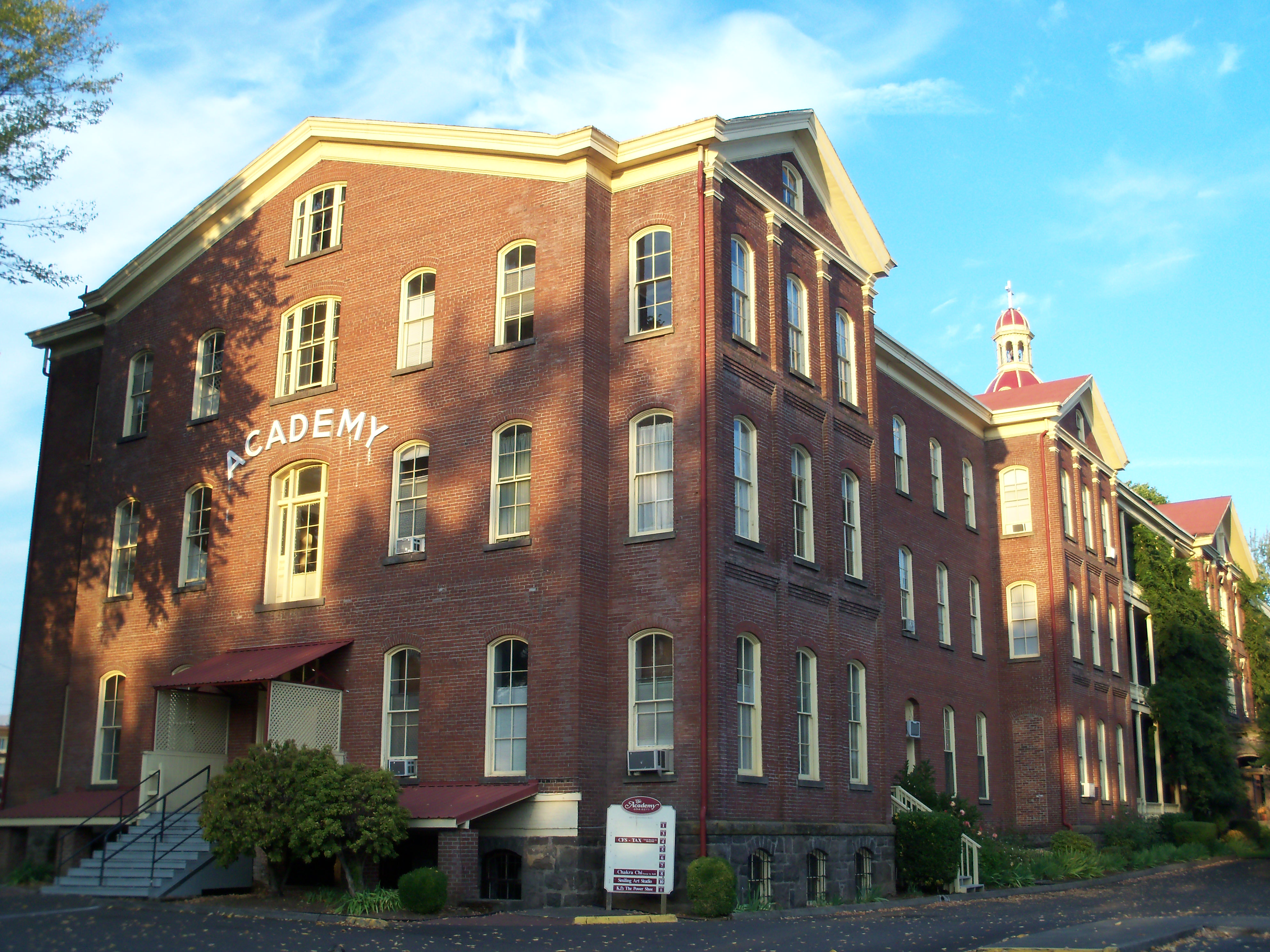 The House of Providence as viewed from its southwest corner. "The Academy" reflects the property's current use and ownership. The front entrance is just visible at the far right.